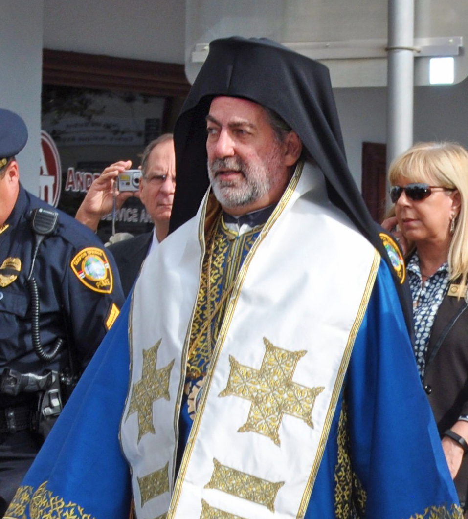 TARPON SPRINGS — The 50 or so young men crammed aboard an open boat stood at attention Monday as Metropolitan Nikitas Lulias raised a basil sprig in his hand to sprinkle water upon them, the boat and the Anclote River.